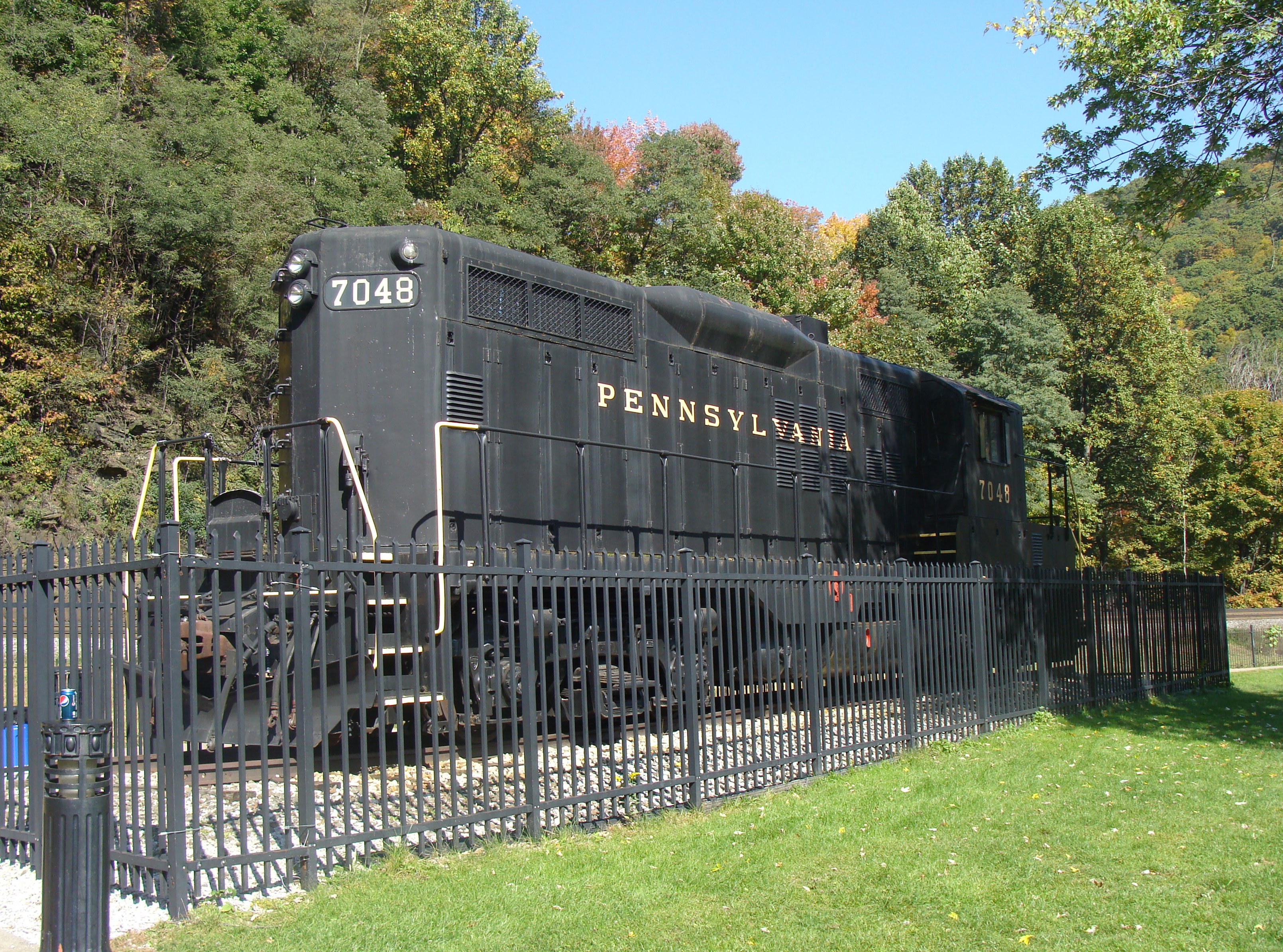 EMD GP9 #7048 on display at Horseshoe Curve outside of Altoona, Pennsylvania.